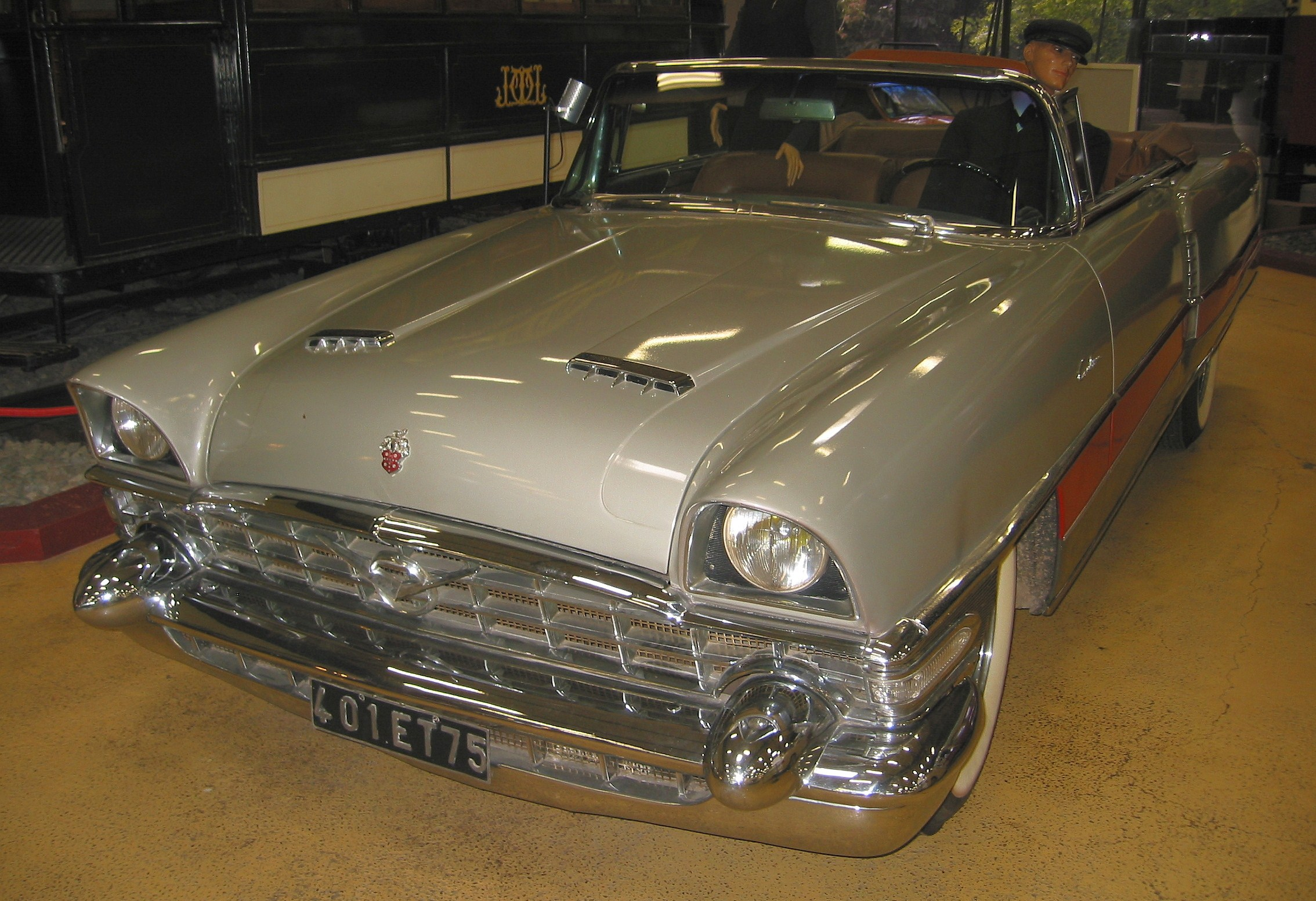 Packard Caribbean Convertible Model 5699 (1956). This car was bought by Edith Piaf when new.